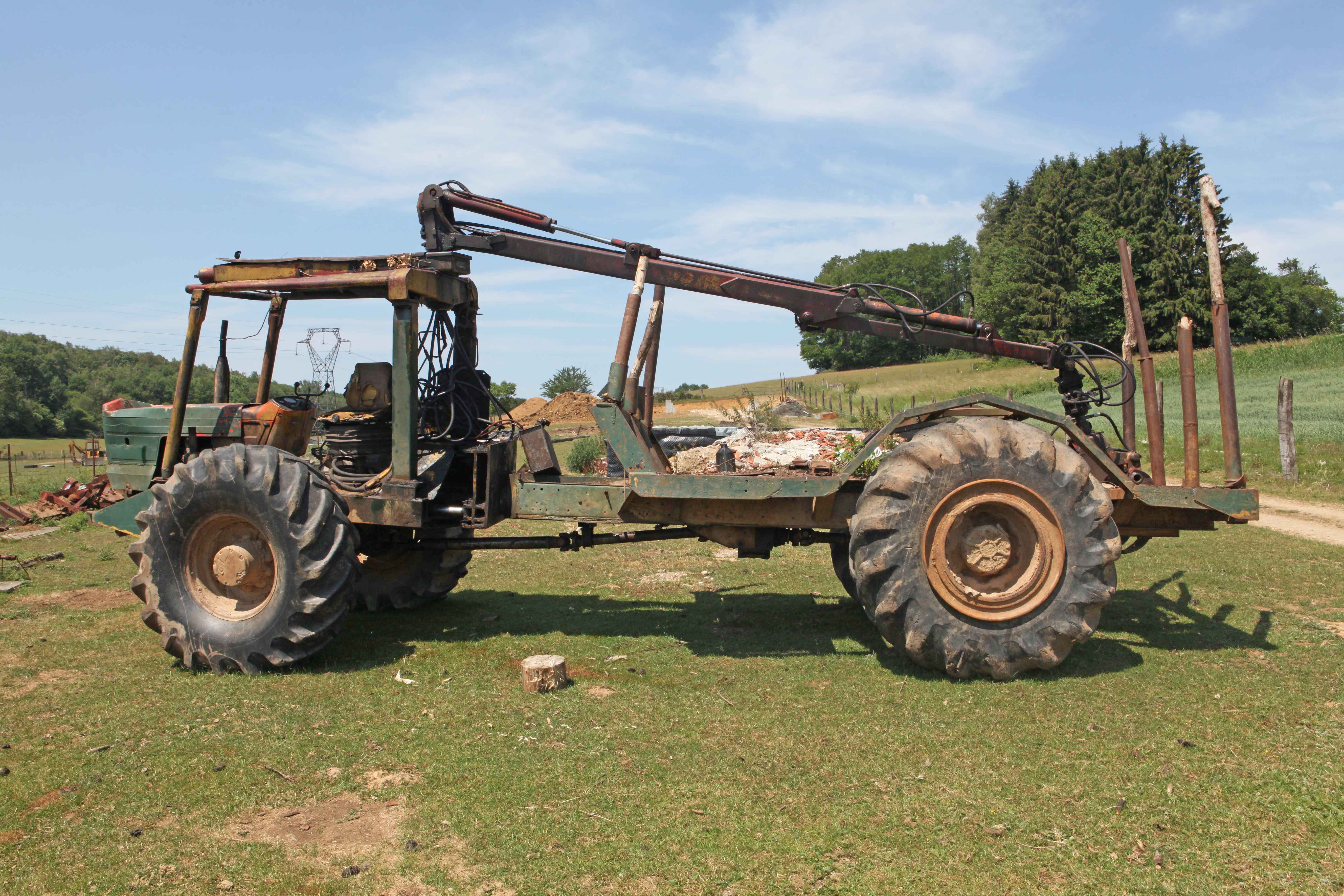 Belarus forwarder